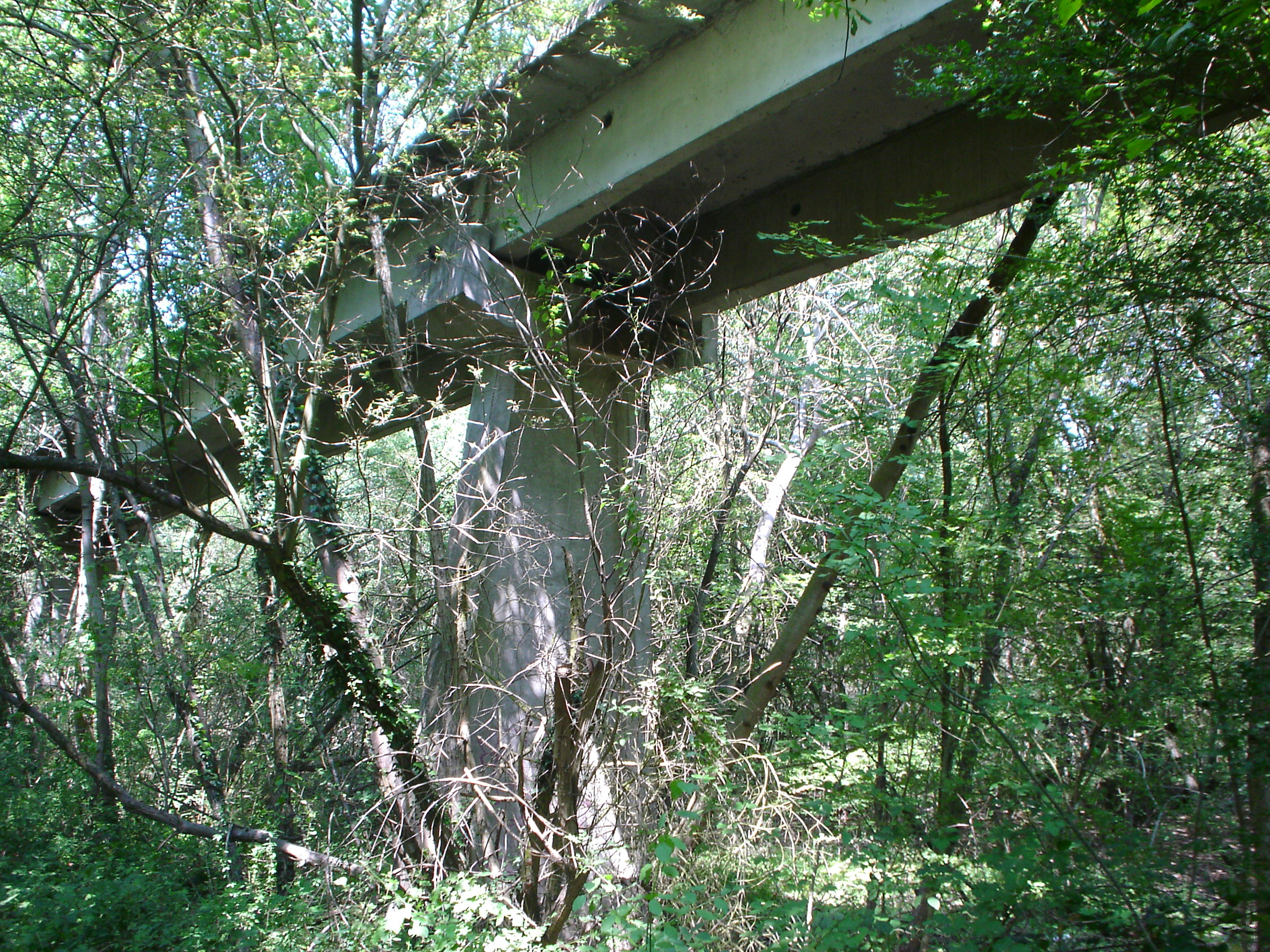 Photo of a bridge of the aérotrain in the forset of Orléans à Saran, Loiret, Centre, France